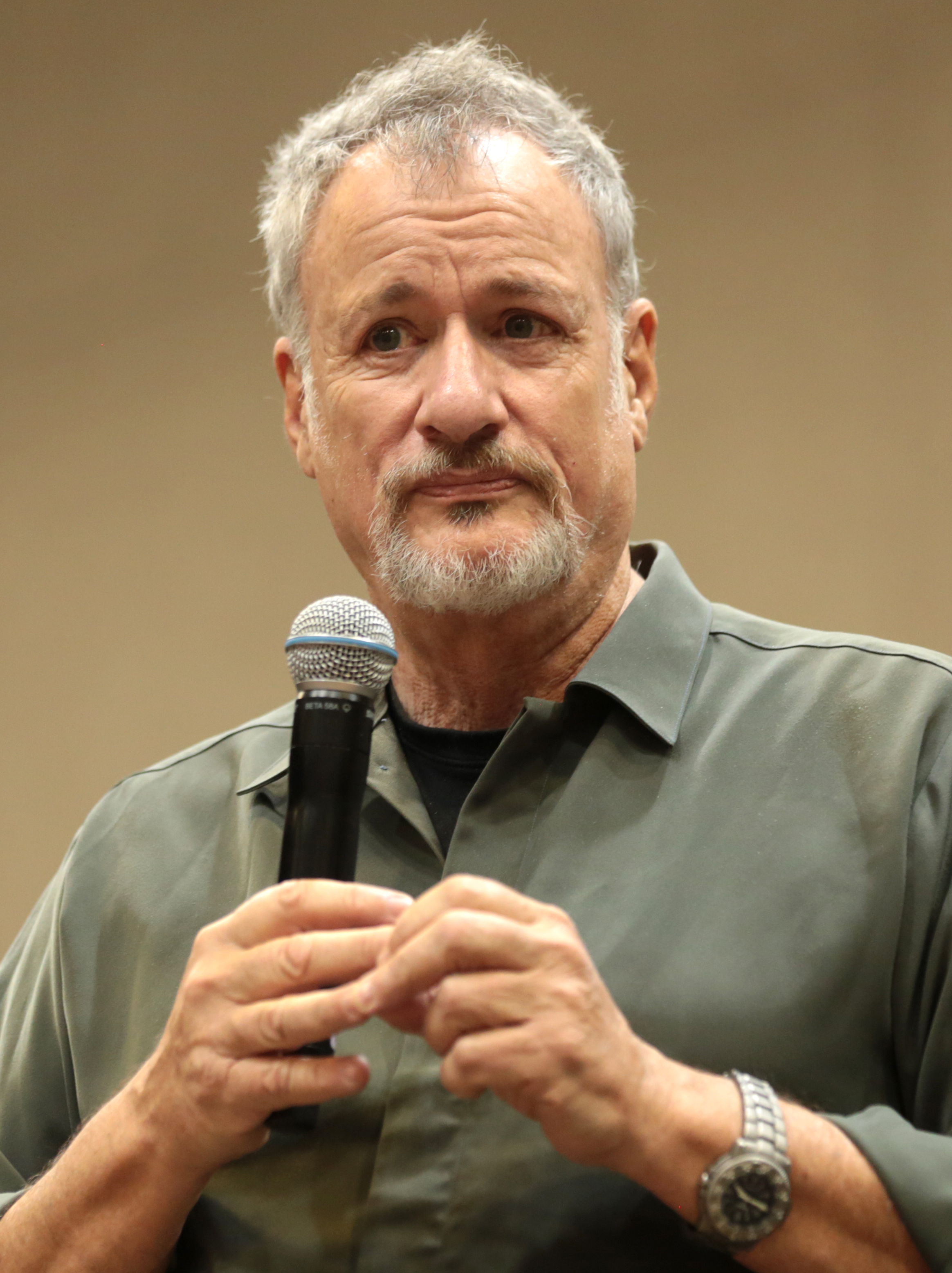 John de Lancie speaking at the 2017 Phoenix Comicon in Phoenix, Arizona.